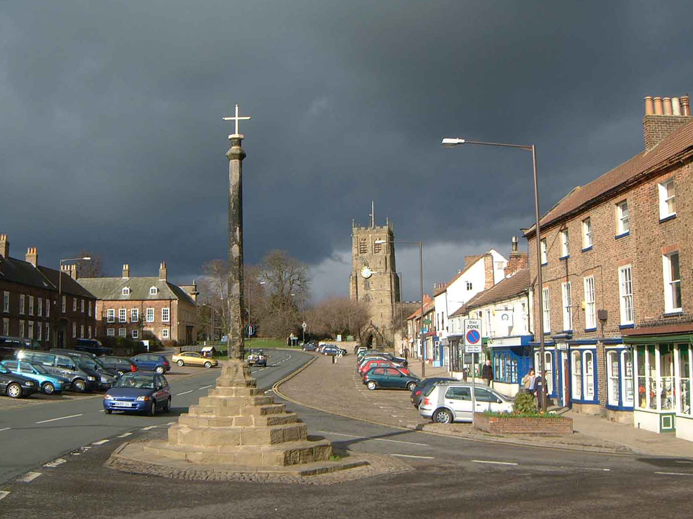 Market cross in Bedale, North Yorkshire, at the junction of North End and Market Place. In the background is the west tower of St Andrew's parish church.